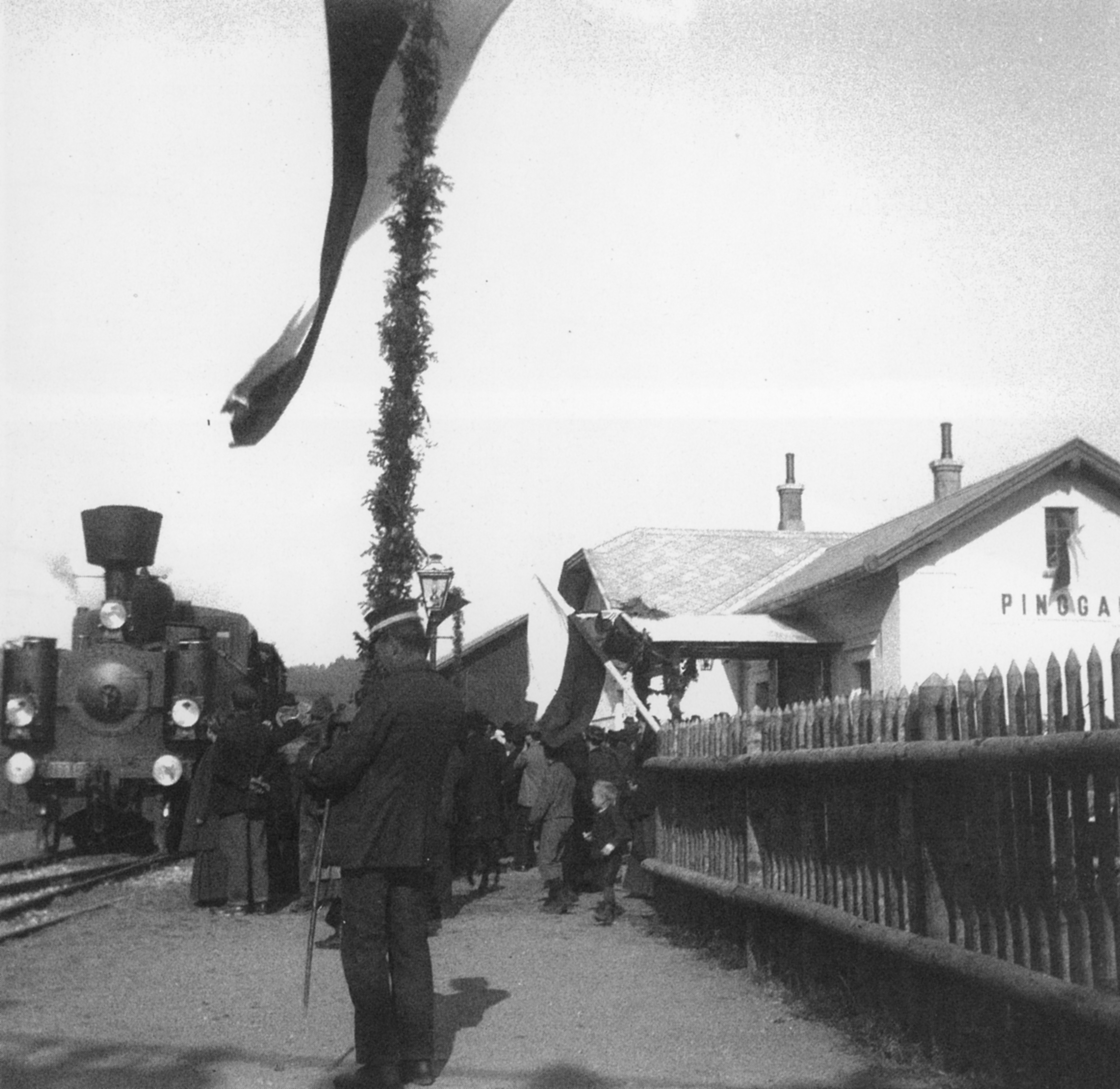 Petschar, Friedlmeier, Steiermark in alten Fotografien, Ueberreuther Verlag Wien. Scanprojekt Community Projektbudget 2012 This scan or this PDF-file was created within the GLAM-project Bookscanning, supported by Wikimedia Germany and Wikimedia Austria as a part of the community-project to capture books, documents and pictures which are not eligible to copyright or for which the copyright has expired. This document describes or depicts an object which is located in Austria today. Texts are written German language. Send requests for uncompressed scans to Hubertl. This work is in the public domain in its country of origin and other countries and areas where the copyright term is the author's life plus 100 years or less. You must also include a United States public domain tag to indicate why this work is in the public domain in the United States. This file has been identified as being free of known restrictions under copyright law, including all related and neighboring rights.